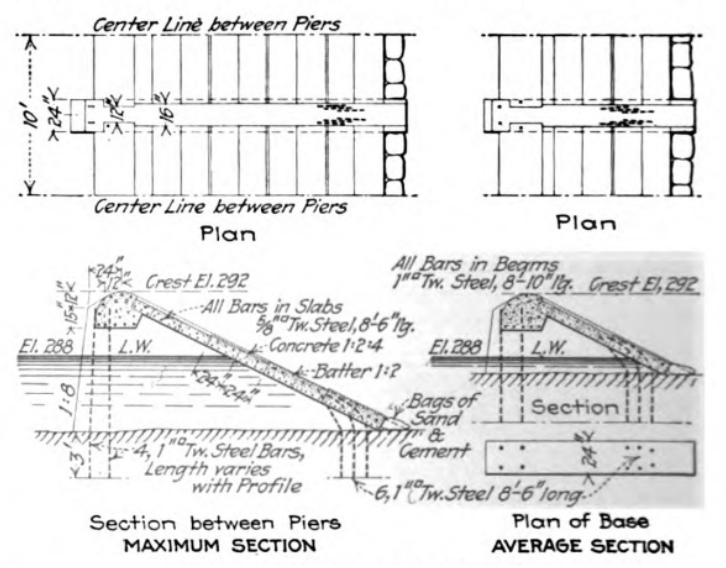 Details of Harrisburg Dam across Susquehanna River (Dock Street Dam)